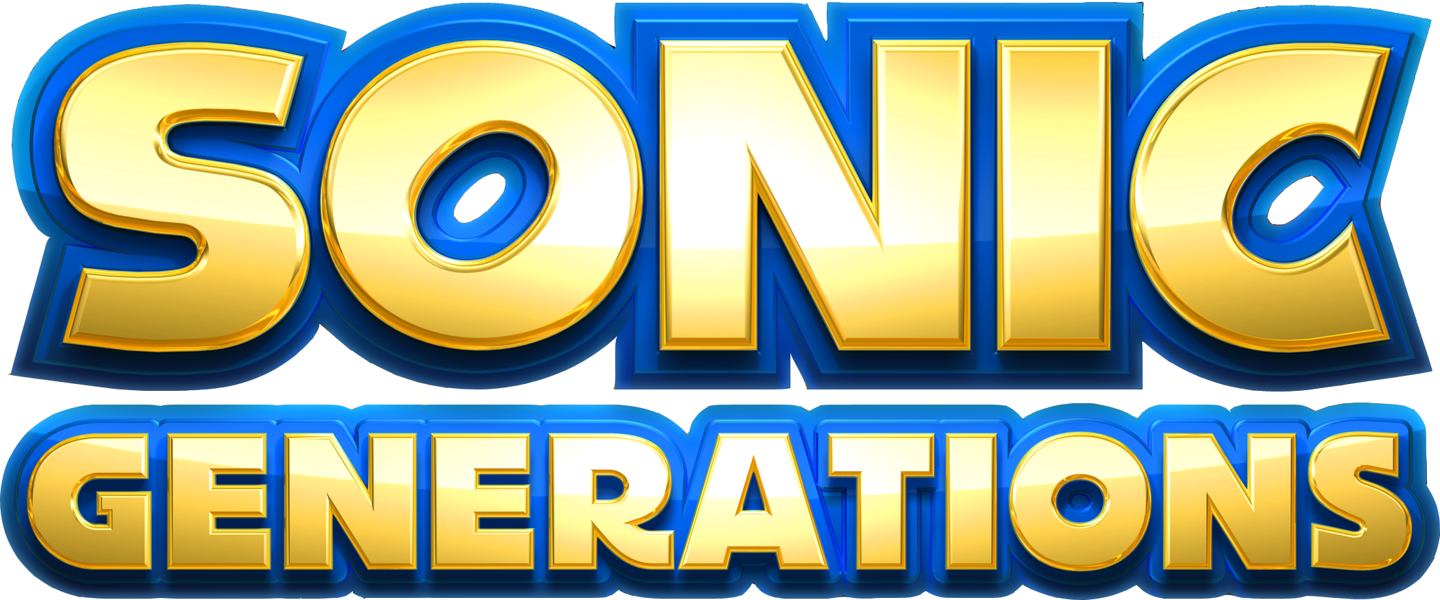 Simplified Sonic Generations logo